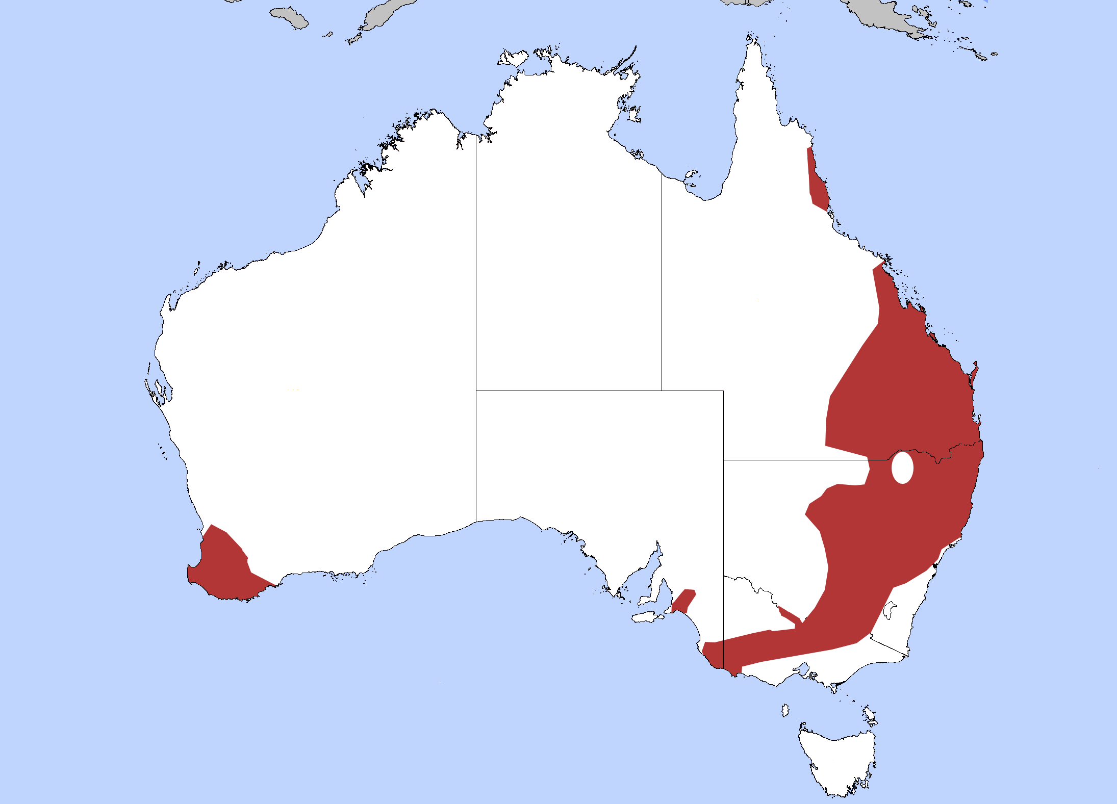 The Yellow-footed Antechinus's Distrobution.